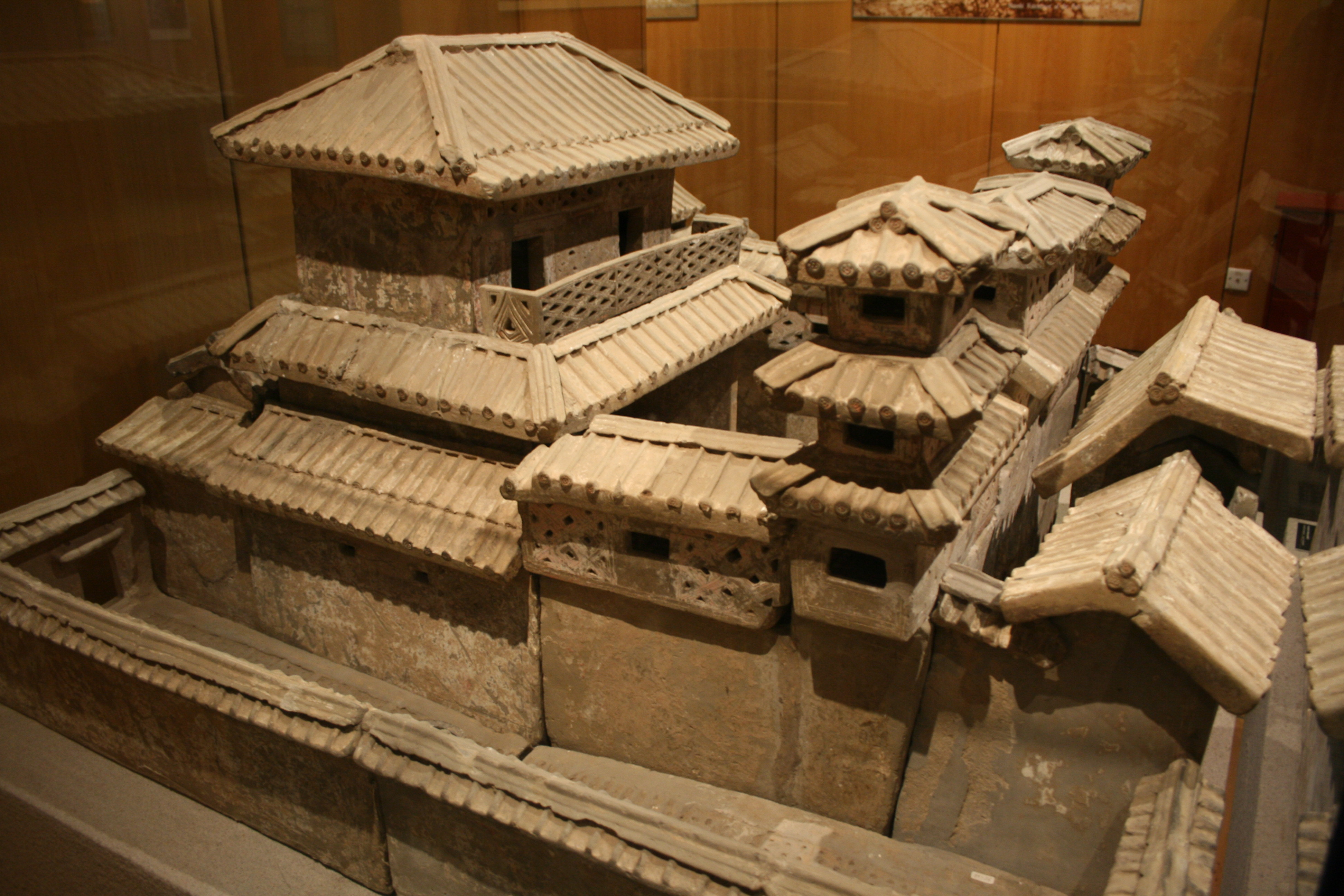 Han Dynasty pottery palace created for elite burial, c. 2nd century BC - 2nd century AD, Henan Provincial Museum, Zhengzhou, China